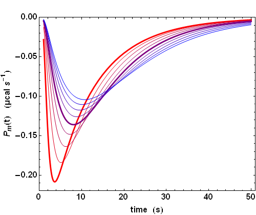 Ænglisc: Simulated response curves obtained in an ITC experiments with the instrument response times varying from 0.5 s (red) to 9.5 s (blue) in steps of 1 s